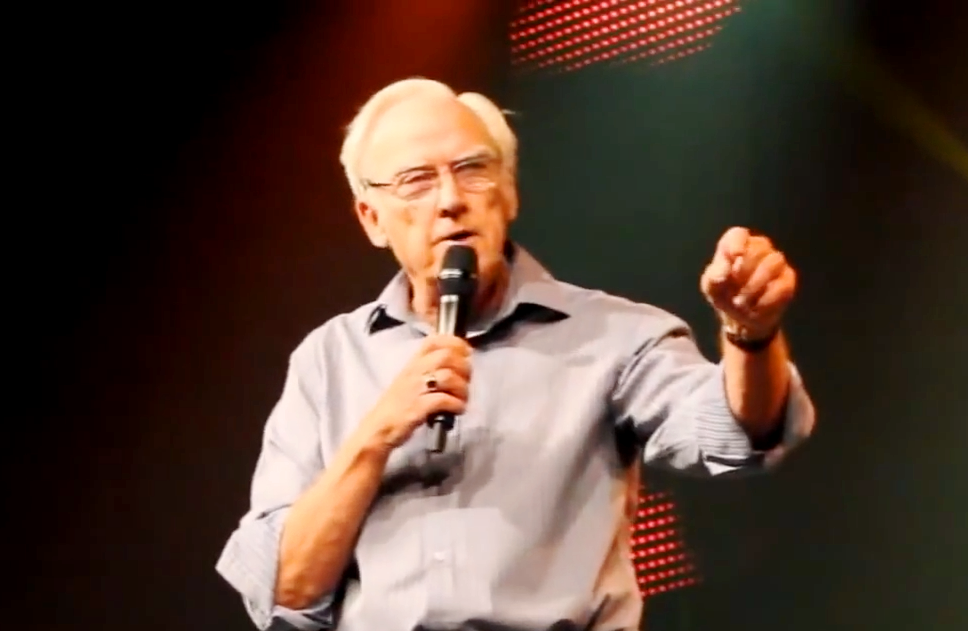 Pastor Colin Urquhart